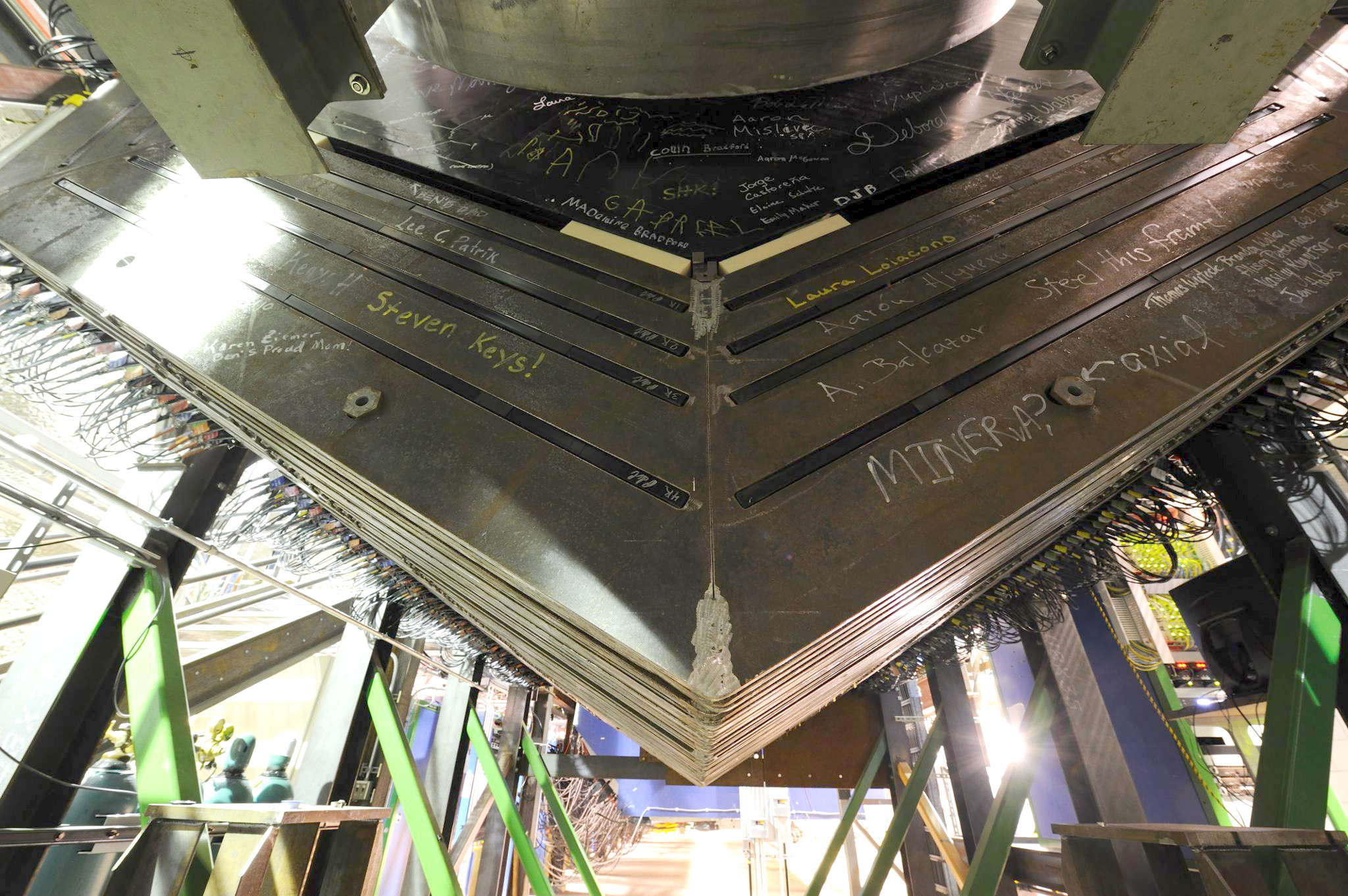 Underside of the MINERvA neutrino detector at Fermi National Accelerator Laboratory in summer 2011. License requires attribution to Steven Keys and